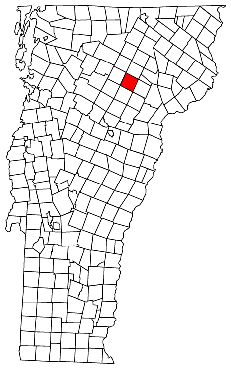 Description: Map of Vermont towns with Hardwick highlighted Source: Map created by Jared C. Benedict on 26 March 2004. Copyright: © Jared C. Benedict.